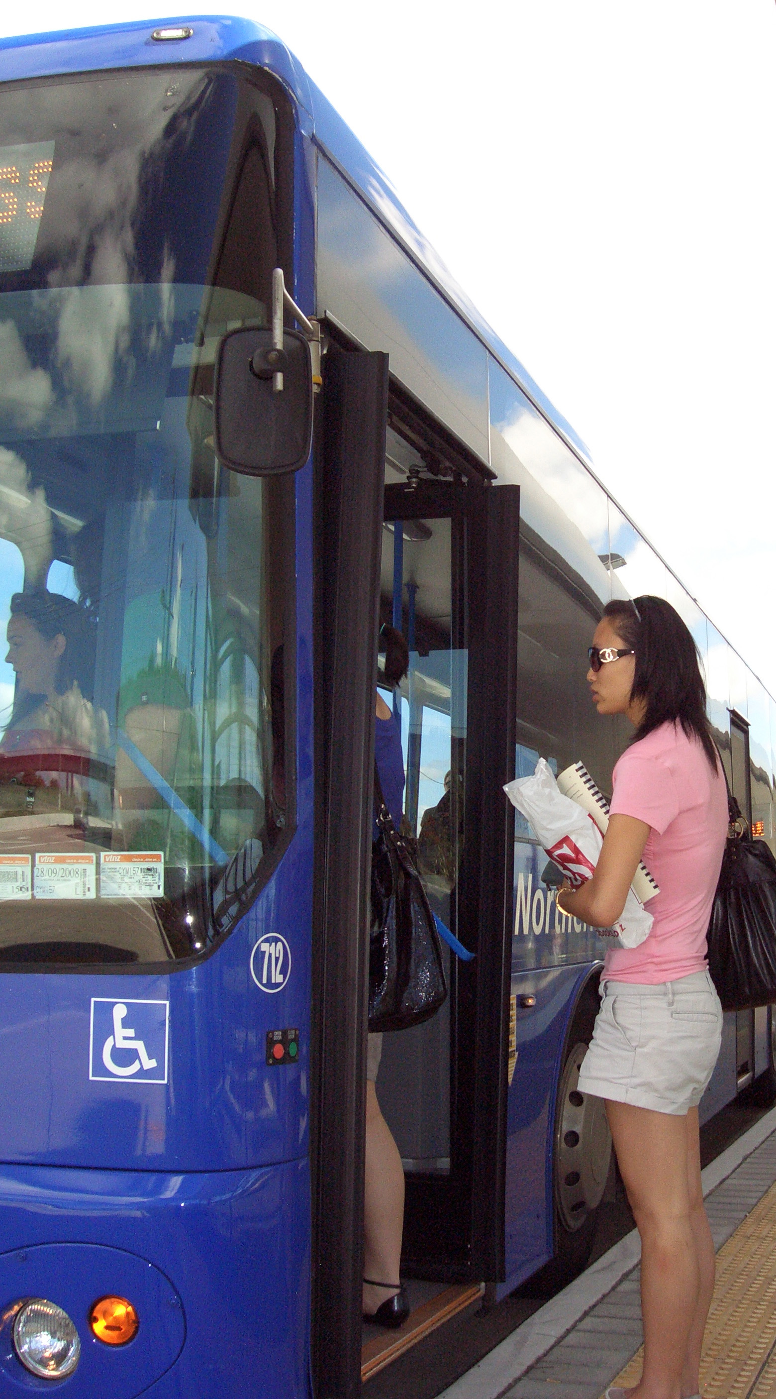 Auckland's Northern Busway adjacent to the Northern Motorway, State Highway 1. Passengers boarding a 'Maxx Northern Express' service operated by Ritchies Coachlines.